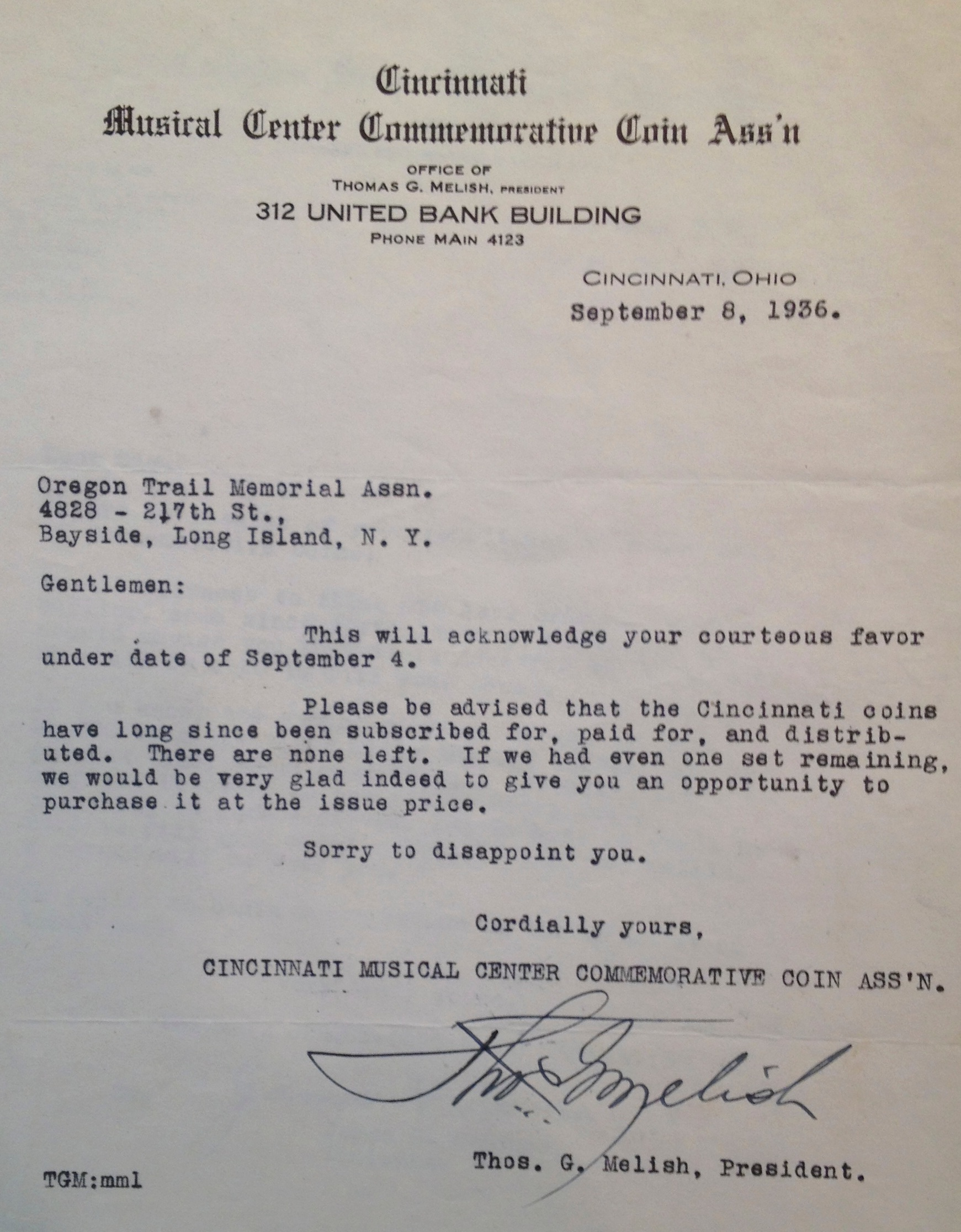 Letter to a disappointed would-be purchaser of the Cincinnati Musical Center half dollar